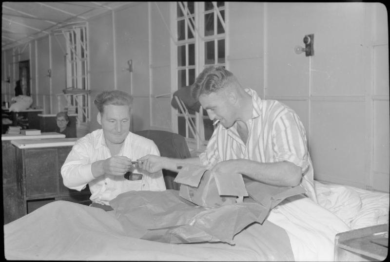 Rehabilitation of British Soldiers From Normandy- the work of the Robert Jones and Dame Agnes Hunt Orthopaedic Hospital, Oswestry, Shropshire, England, UK, 1944 Corporal M Barnes (right) smokes a cigarette as he sits up in his hospital bed to open a newly-arrived parcel at the Robert Jones and Dame Agnes Hunt Orthopaedic Hospital, Oswestry. Corporal Barnes comes from Burnley in Lancashire and served with the Royal Welch Fusiliers. He is sharing the contents of his parcel with fellow patient Private Rennison (from Bramley, Yorkshire), who served with the 51st Highland Division.